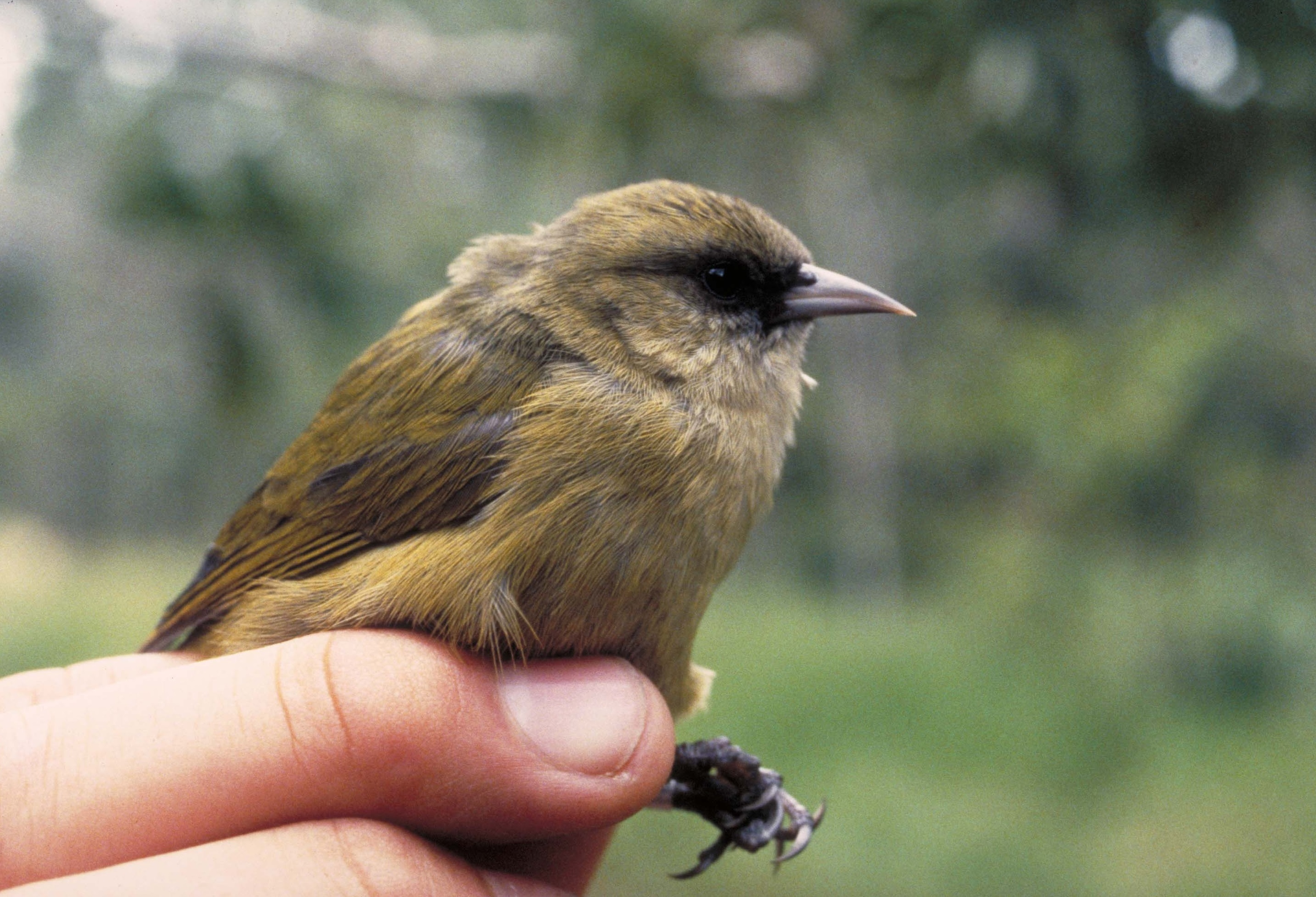 Hawai'i Creeper (Oreomystis mana), Kulani Forest, HI, USA. 1992.